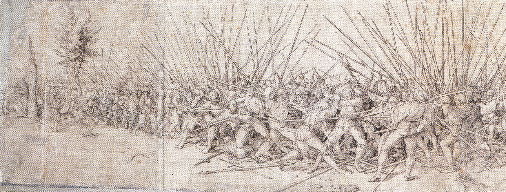 Battle Scene.